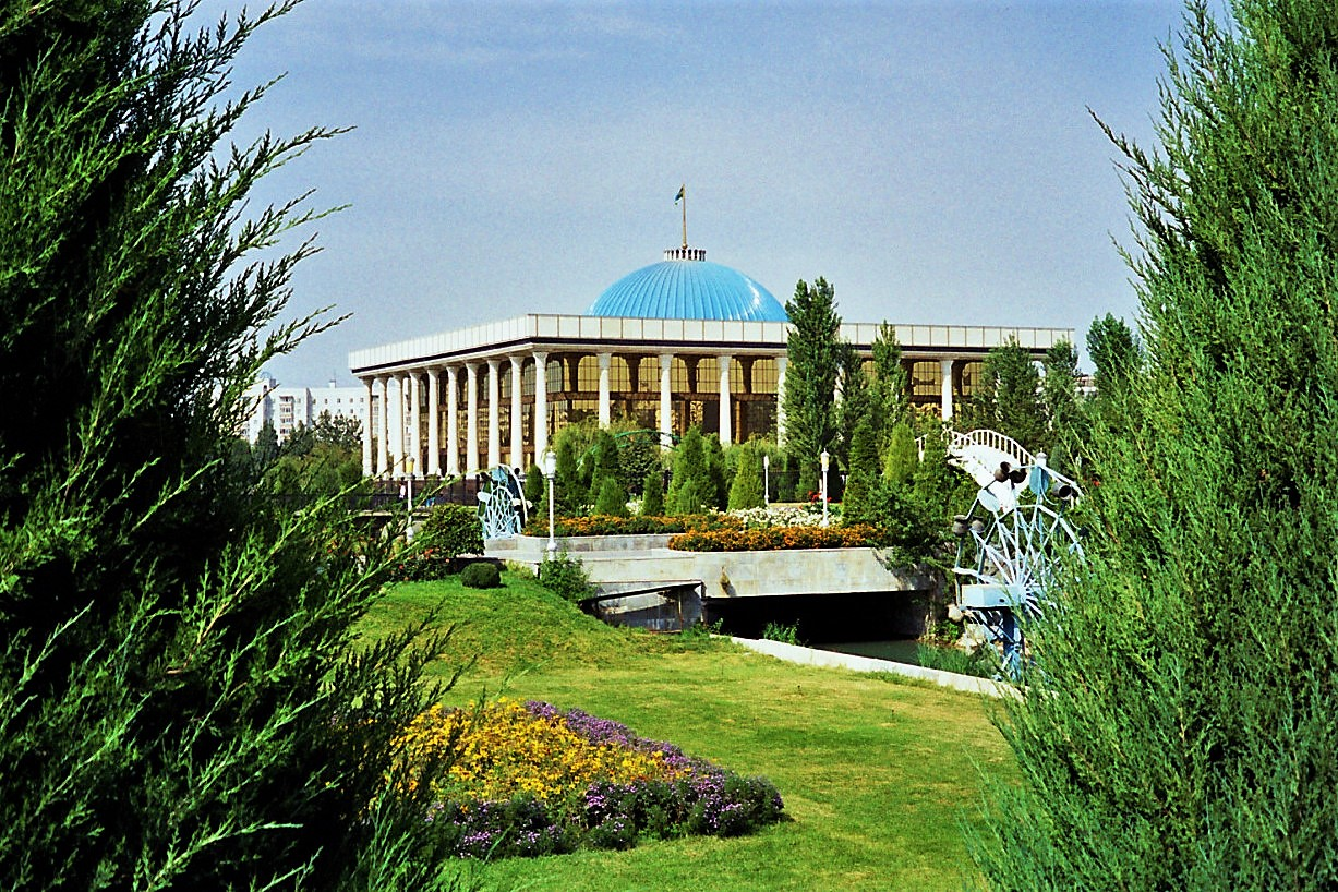 this sits in the middle of a big park and really was quite pretty, in a modernist sort of way